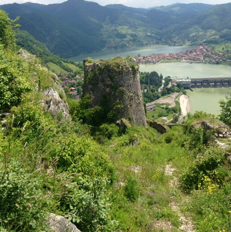 Zvornik fortress (Kula grad), 3 June 2014